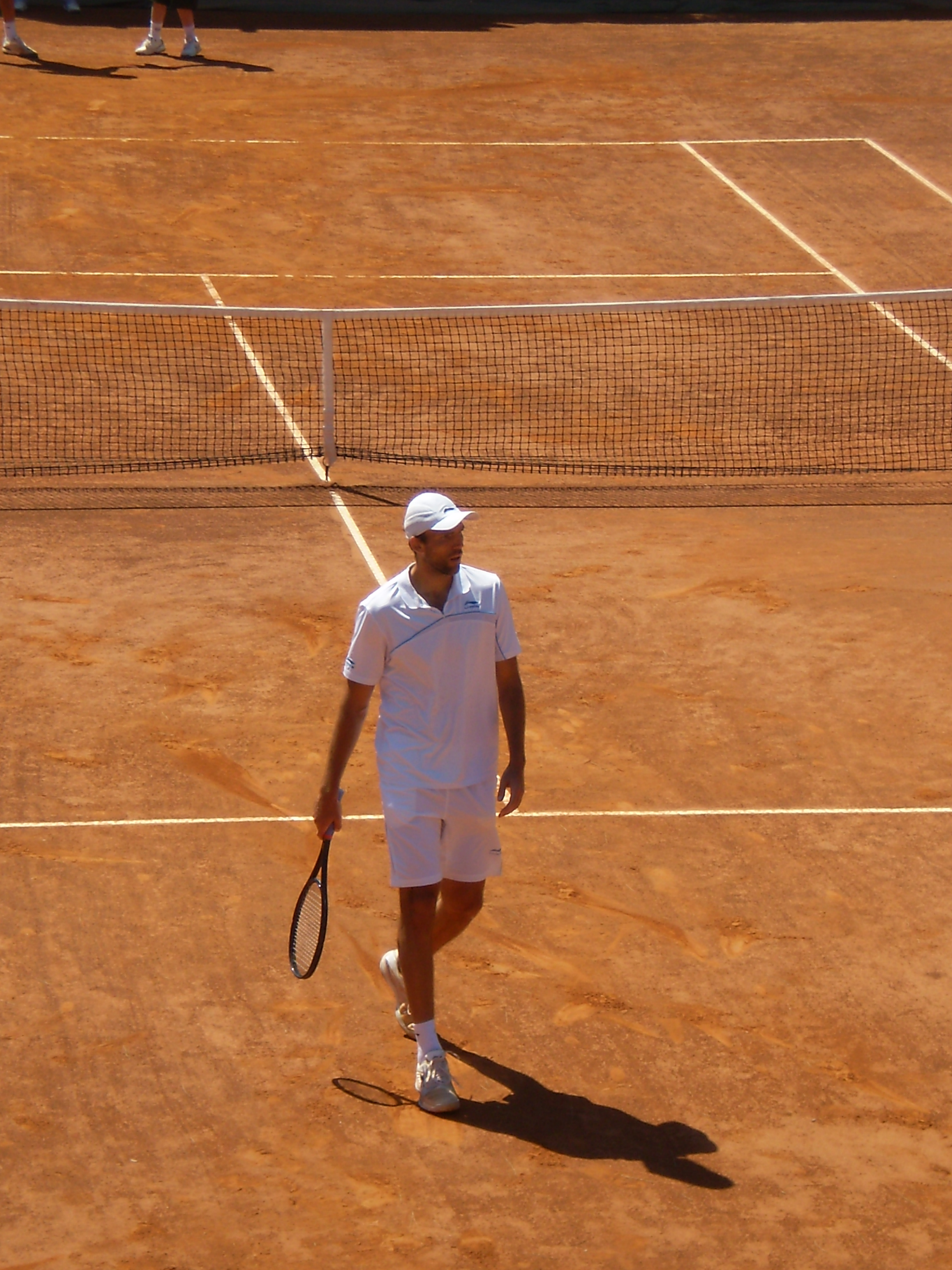 Karlovic in Rome 2011